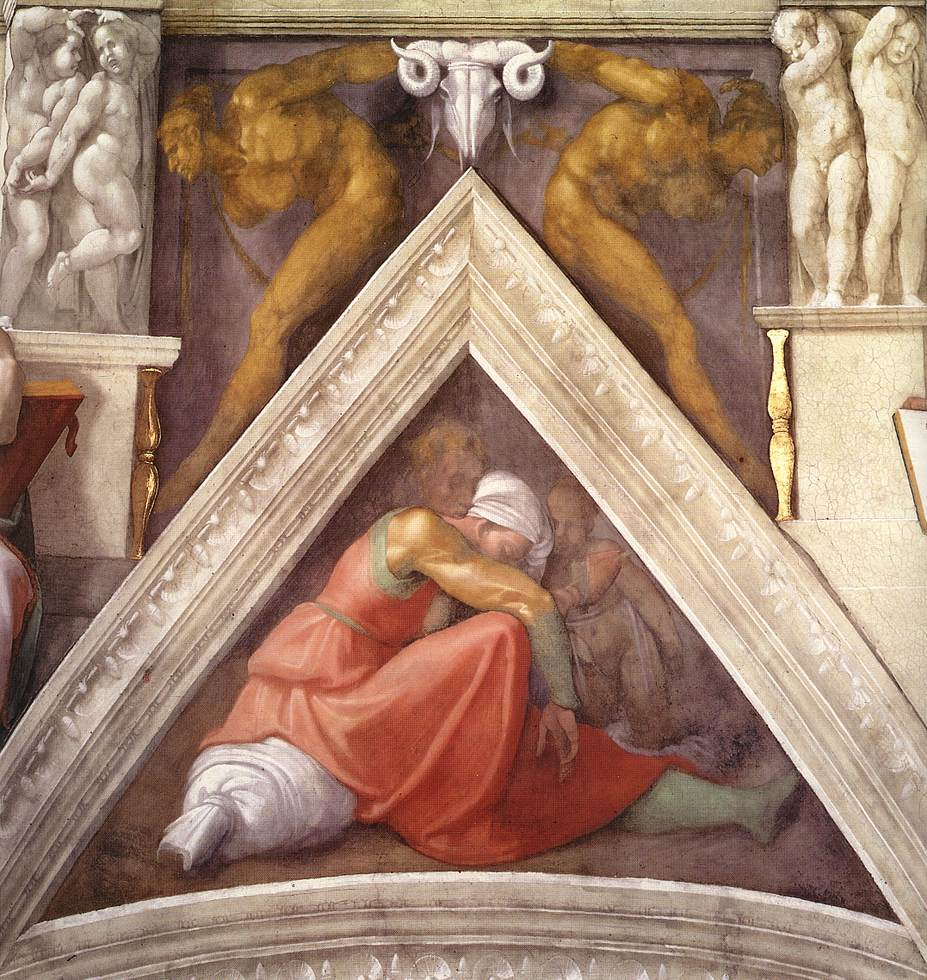 The figures are in the triangular spandrel in the sixth bay between Daniel and the Cumaean Sibyl. The spandrel is situated over the Asa-Jehoshaphat-Joram lunette. It is assumed that in the background Asa, the future king is consoling his father (a destroyer of idols) in pilgrim robe, while his mother (a worshipper of idols) is sleeping in the foreground.